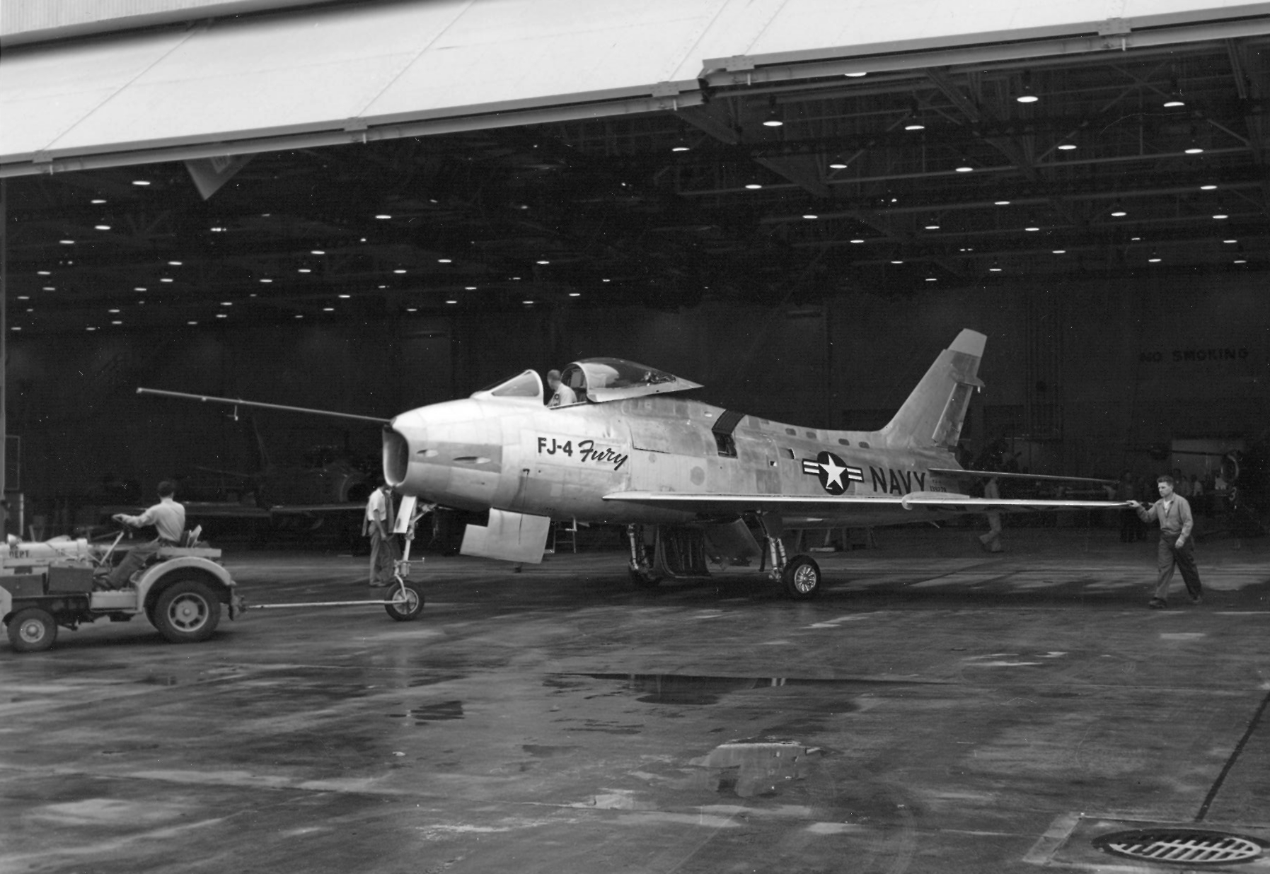 The first U.S. Navy North American FJ-4 Fury fighter (BuNo 139279) in front of the NAA engineering flight test hangar at North American Aviation, Columbus, Ohio (USA), before its first flight by engineer test pilot Dick Wenzell.